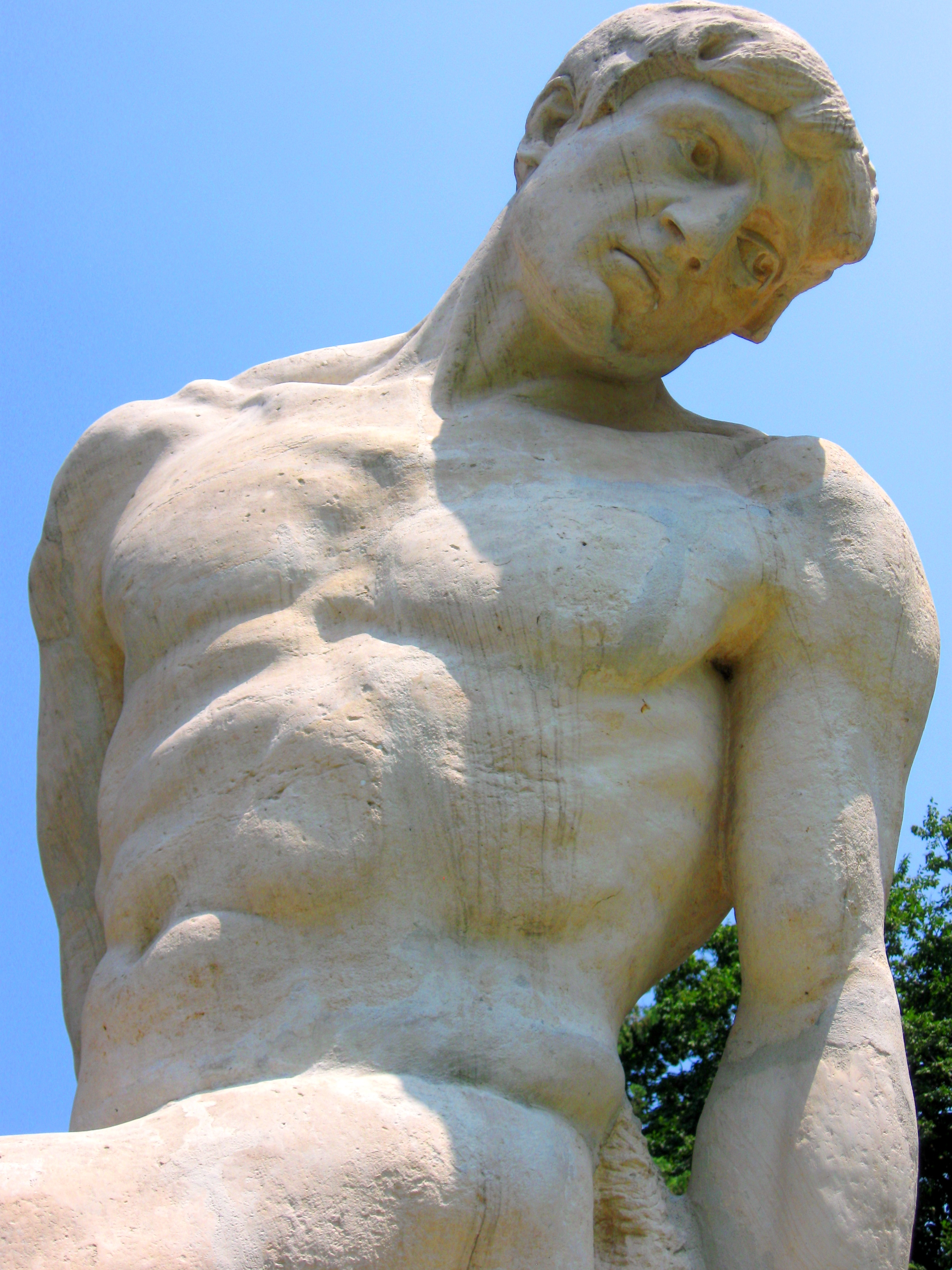 Gigant ("Giant"), sculpture by Frederic (Friedrich) Storck, in Carol Park, Bucharest, Romania. Officially classified as a historical monument. Frederic Storck (1872–1942) Alternative names Friedrich Storck, Fritz StorckDescriptionRomanian sculptorDate of birth/death 10 January 1872 26 December 1942Location of birth/death Bucharest BucharestAuthority control : Q368977 VIAF: 96120065 ULAN: 500064165 GND: 1175921076 RKD: 434323 creator QS:P170,Q368977